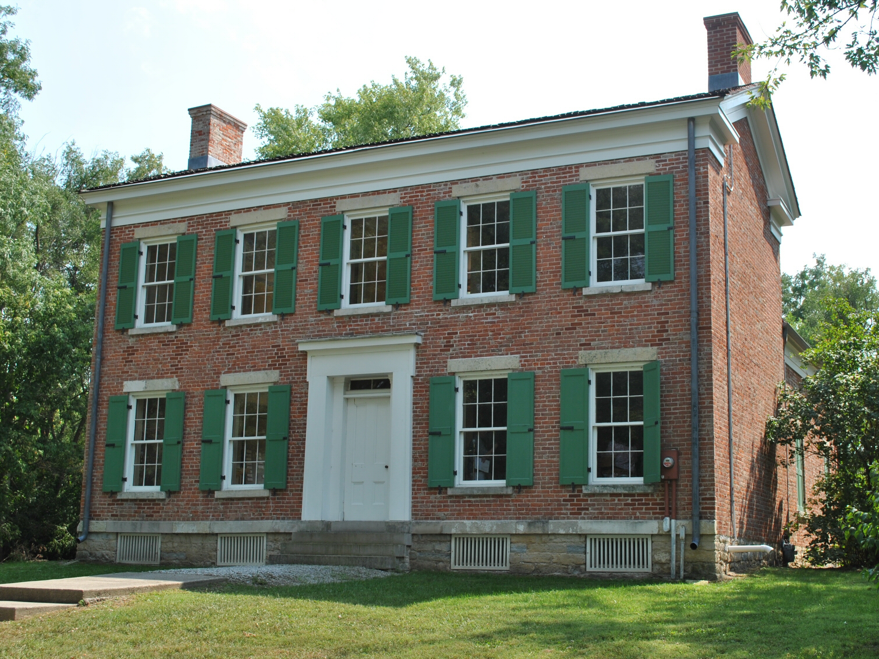 Chief Jean-Baptiste de Richardville House in Allen County, Indiana. Built in 1827, it has been declared a National Historic Landmark.